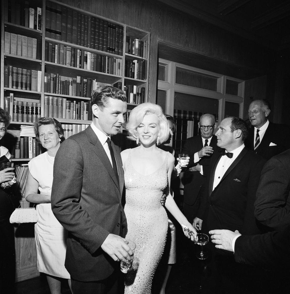 Steve Smith (brother-in-law of President John F. Kennedy) visits with actor and singer Marilyn Monroe, during an evening reception at the residence of Arthur B. Krim and Dr. Mathilde Krim in New York City, New York.